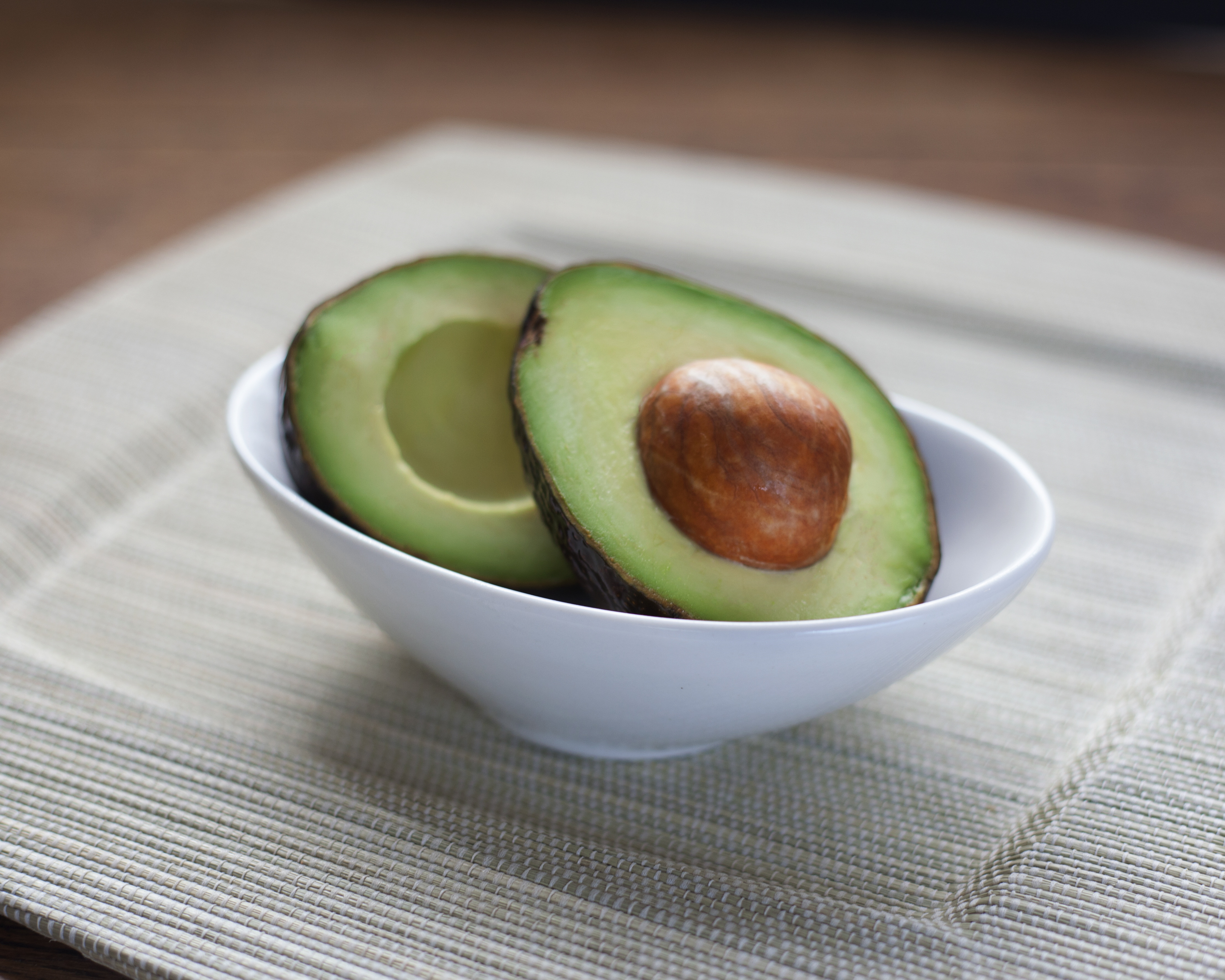 This photo is available under Creative Commons. If you use this image, please give credit to with a clickable link.